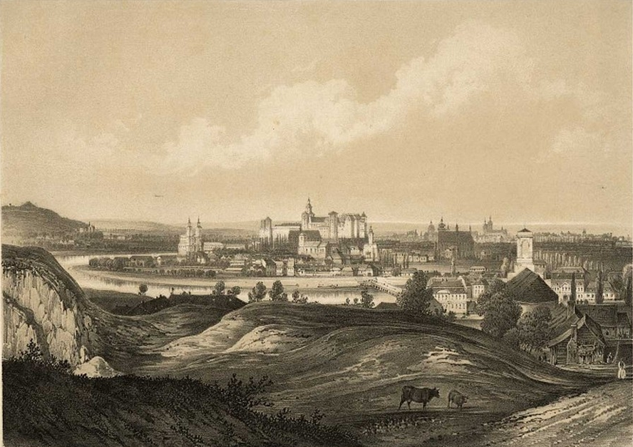 Krzemionki Podgorskie, view of Krakow, about 1850